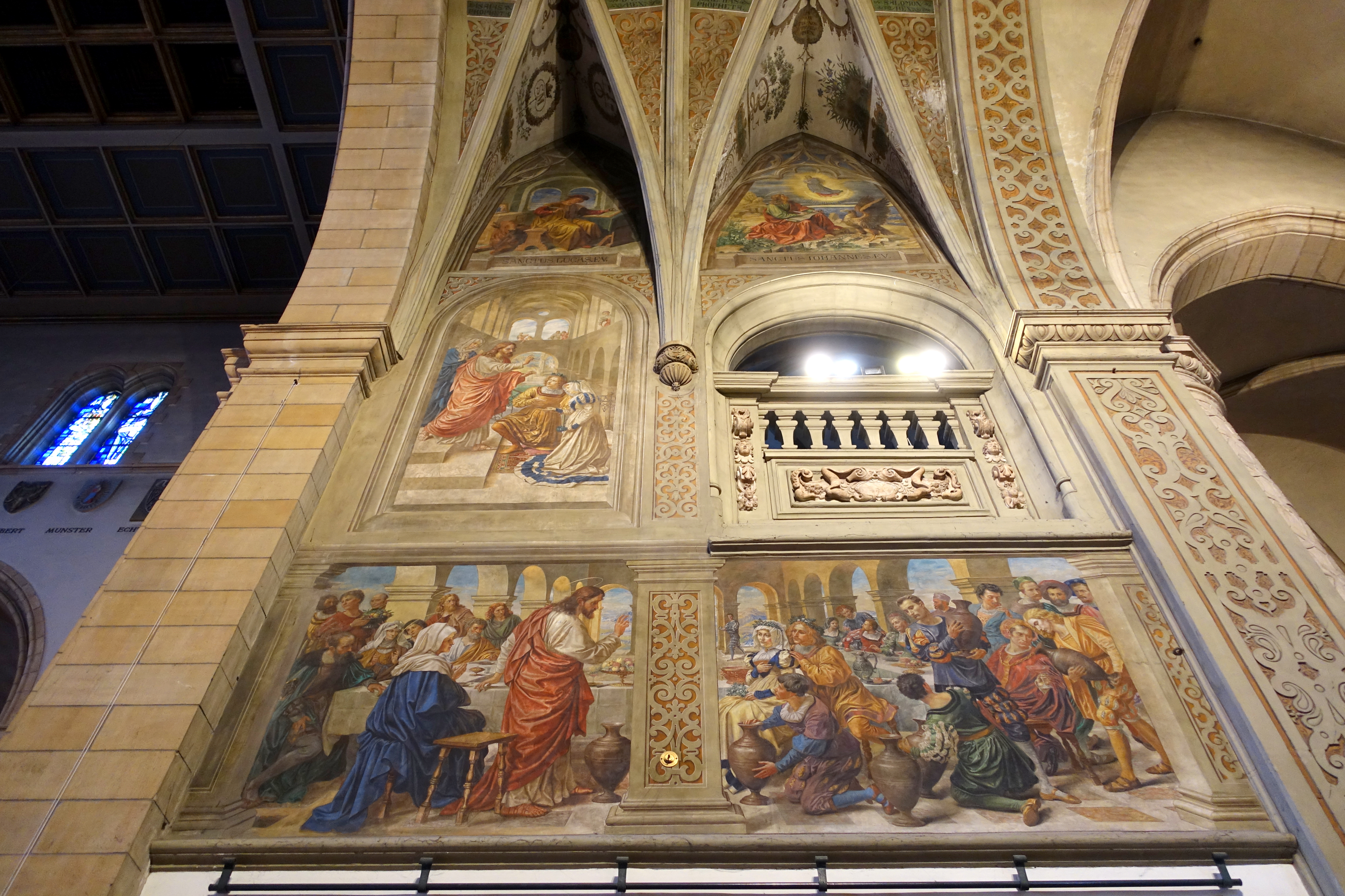 Cathédrale Notre-Dame de Luxembourg, Luxembourg City, Luxembourg. Artwork is old enough so that it is in the public domain.